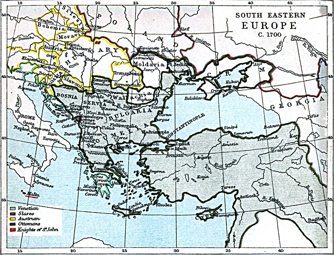 Map of south-eastern Europe in 1700 AD.